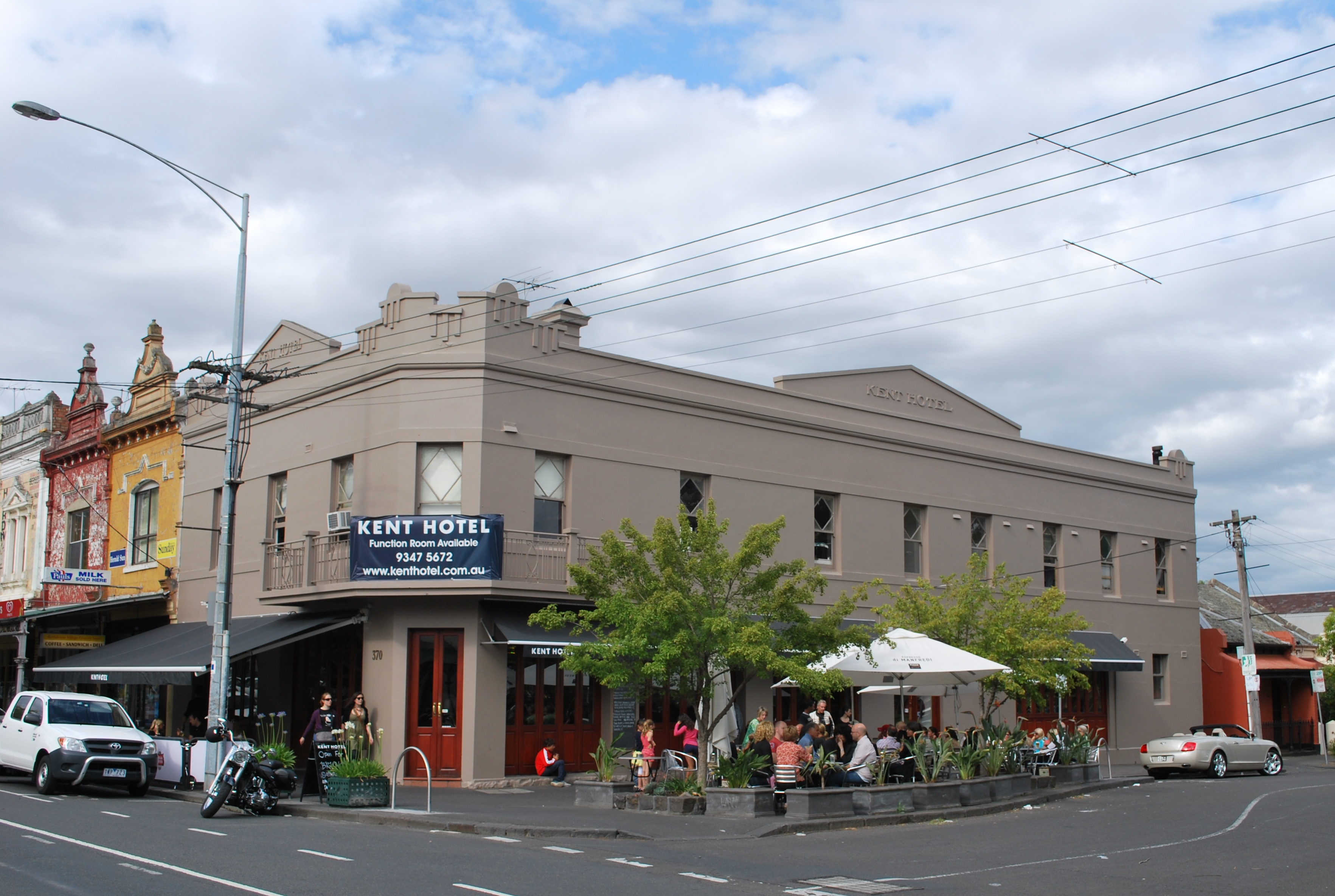 Kent Hotel in Carlton North, Victoria